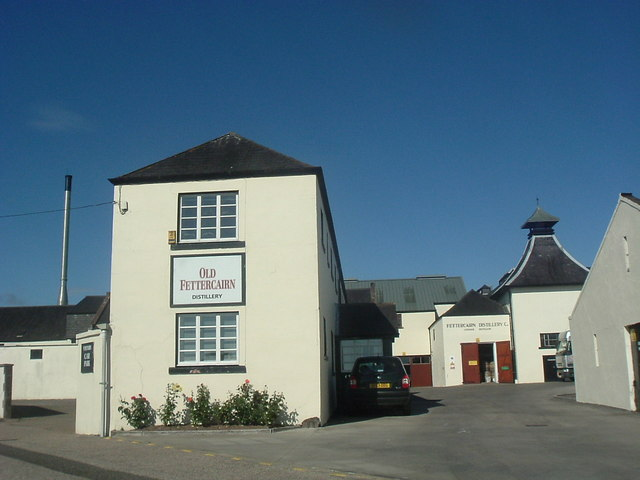 'Old Fettercairn' distillery Whisky production.